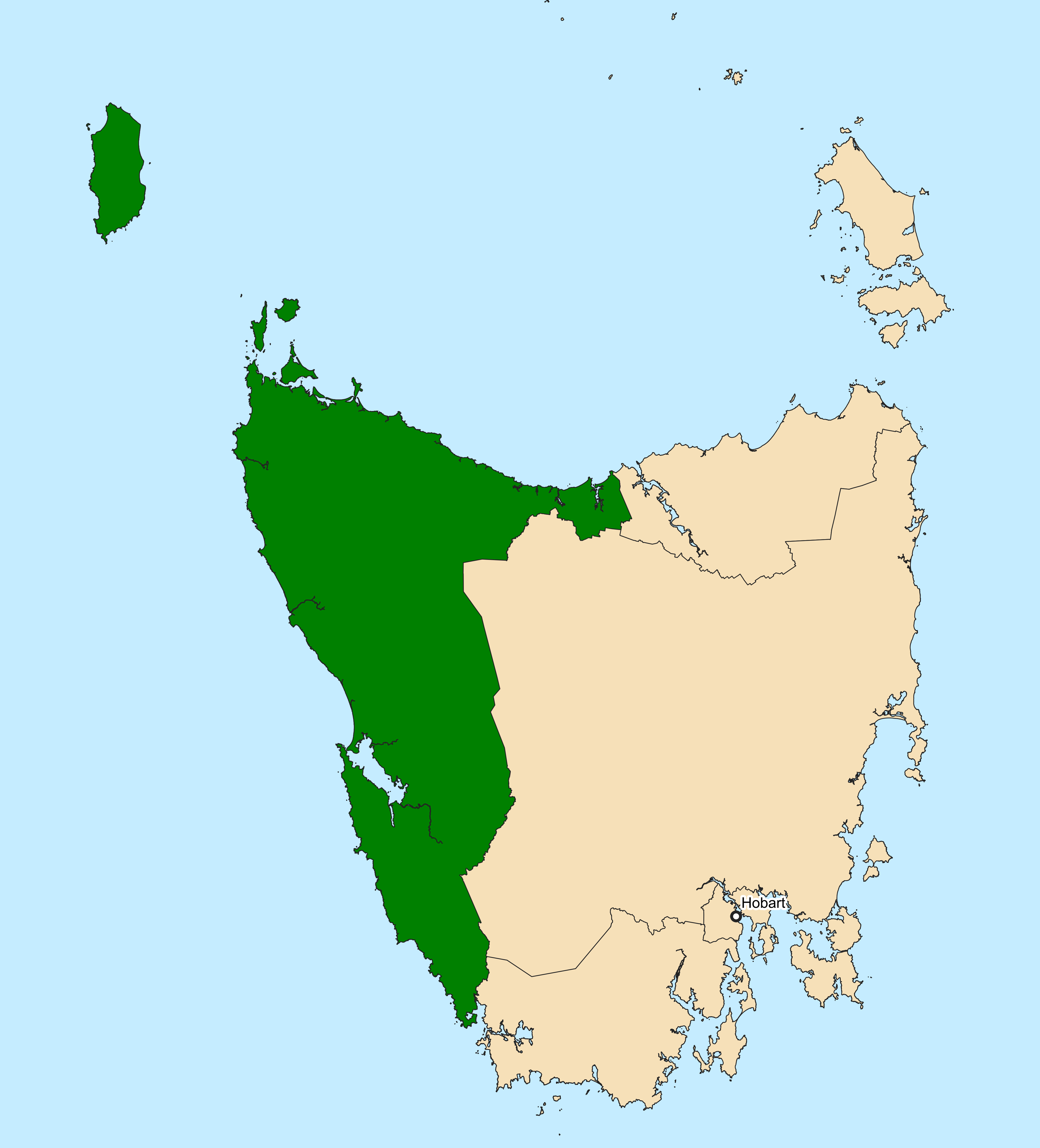 Location of the Australian federal electoral division of Braddon (dark green) in Tasmania as of the 2019 Australian federal election. Incorporates or developed using Administrative Boundaries ©PSMA Australia Limited licensed by the Commonwealth of Australia under Creative Commons Attribution 4.0 International licence (CC BY 4.0).